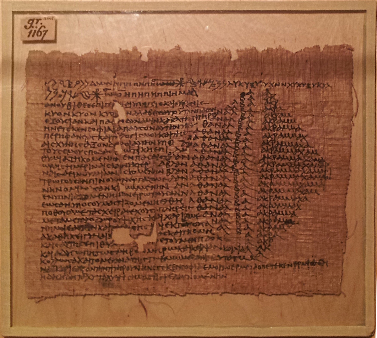 Magical papyrus written in Greek, a lovespell of attraction commissioned by Hermeias, addressed to the dog-headed god Anubis, and designed to attract Tigerous -or Titerous -, daughter of Sophia